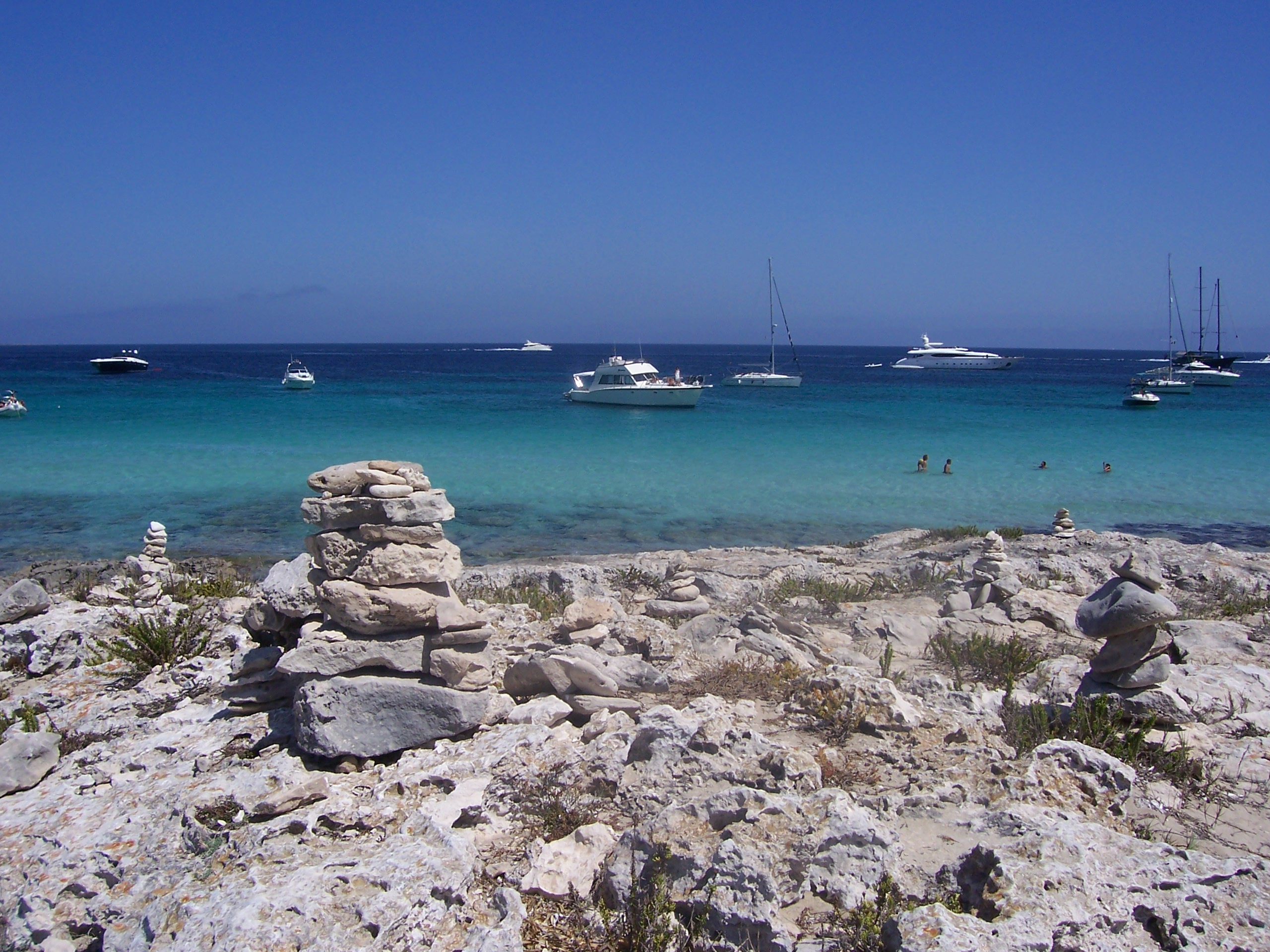 Formentera, Trocador e Platja de LLevant